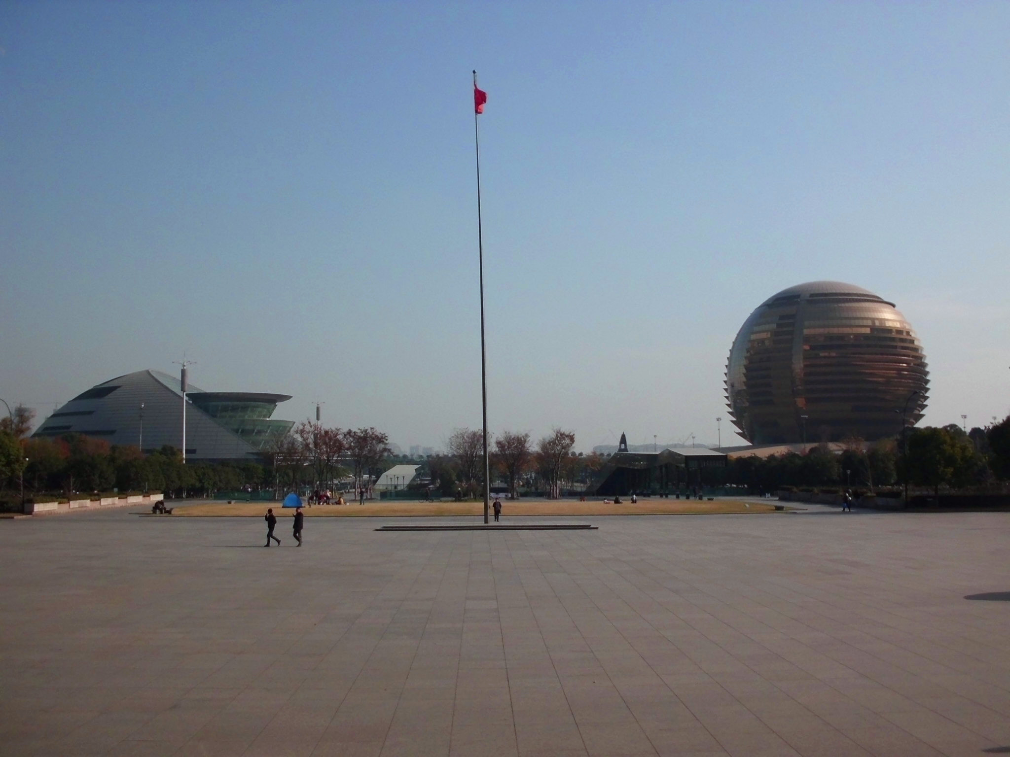 Hangzhou citizen center